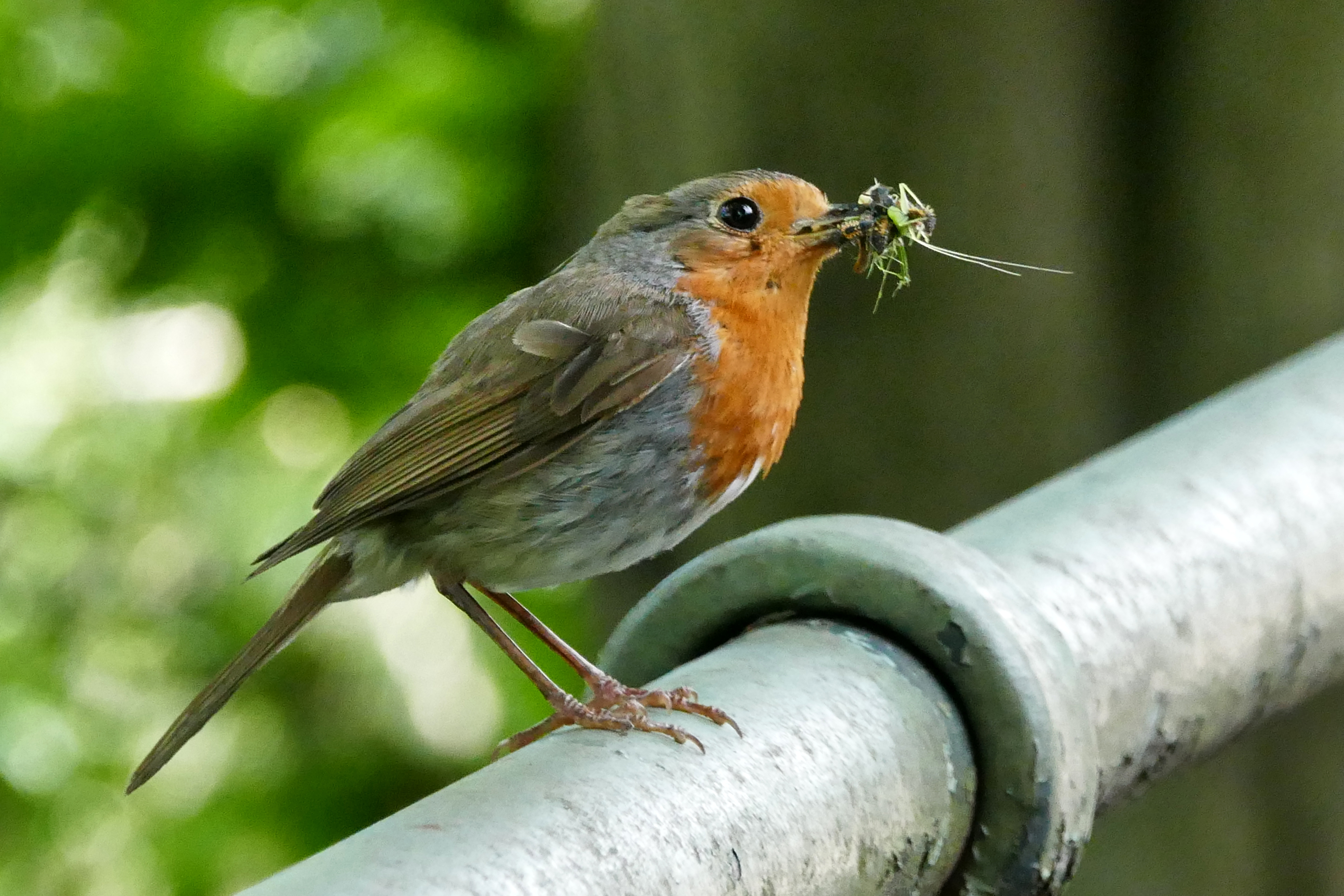 The redbreast is eating